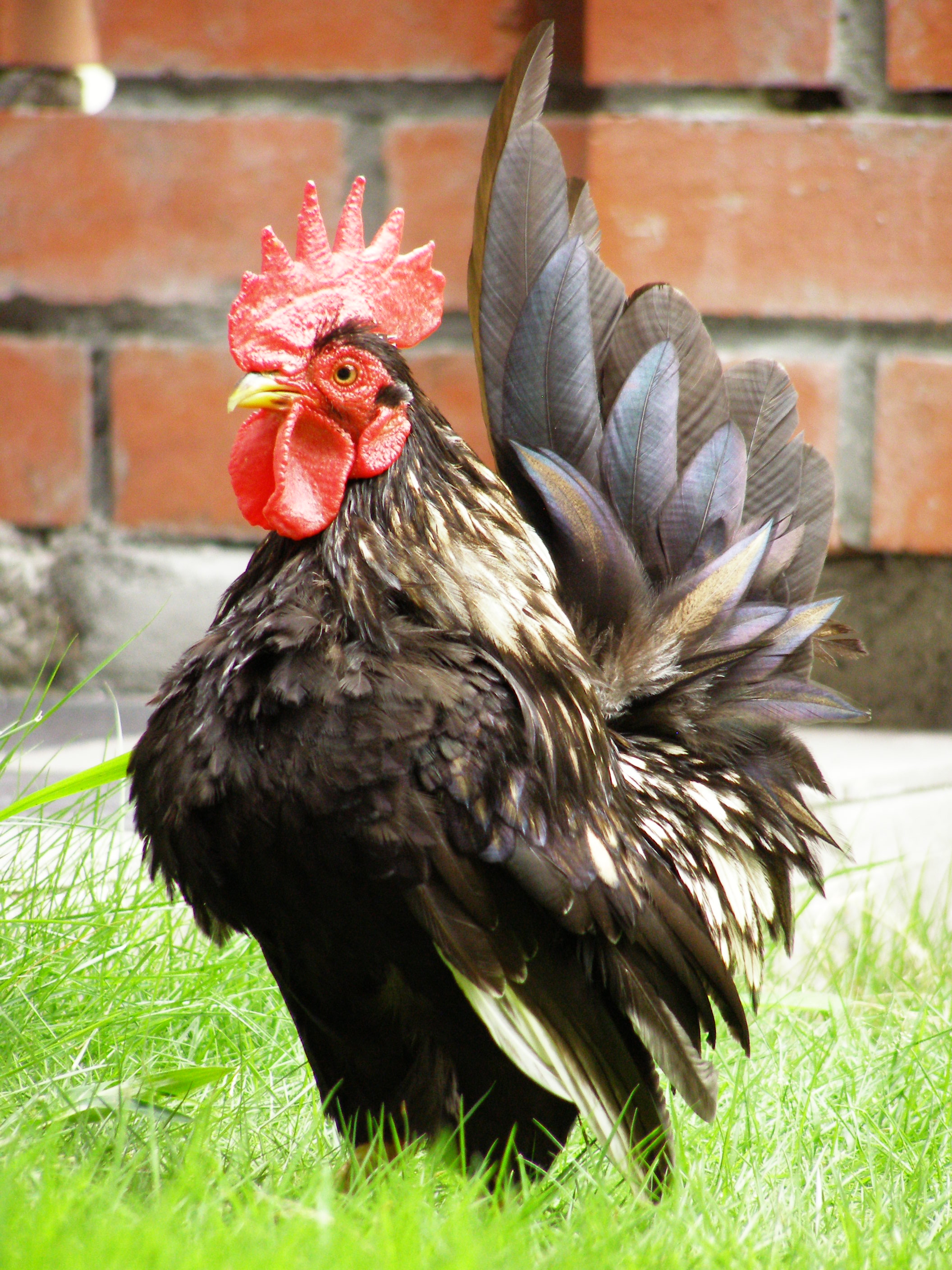 A Malaysian Serama bantam rooster that was kept as a pet, but was eventually killed by a domestic cat.